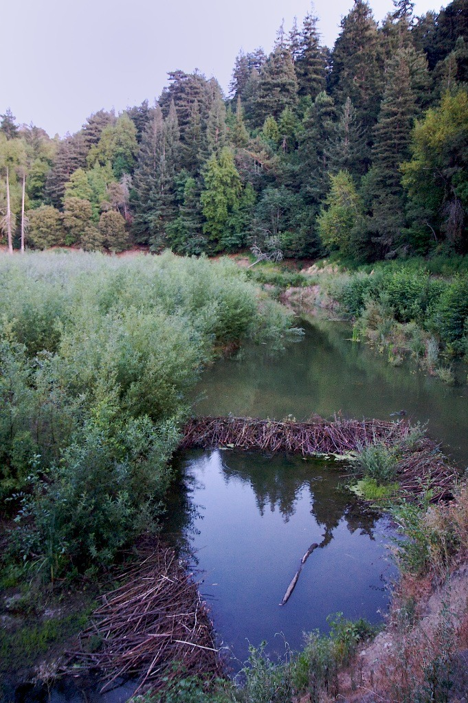 Beaver dams on upper Los Gatos Creek- Santa Cruz Mountains - 2009.